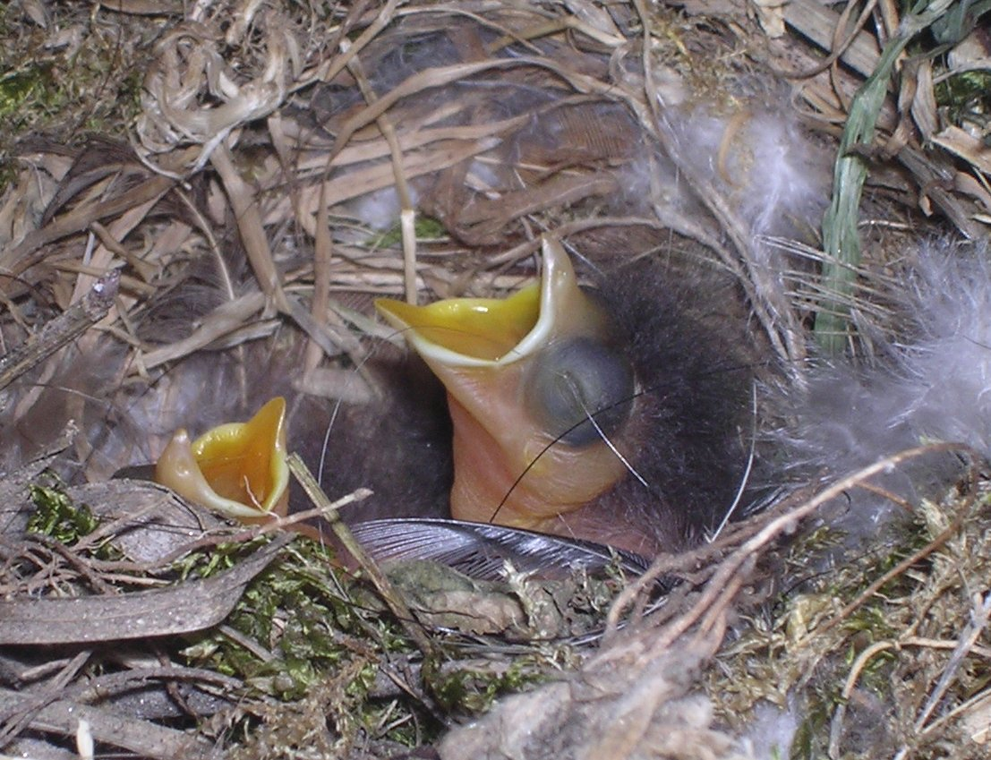 Phoenicurus phoenicurus 2 days old